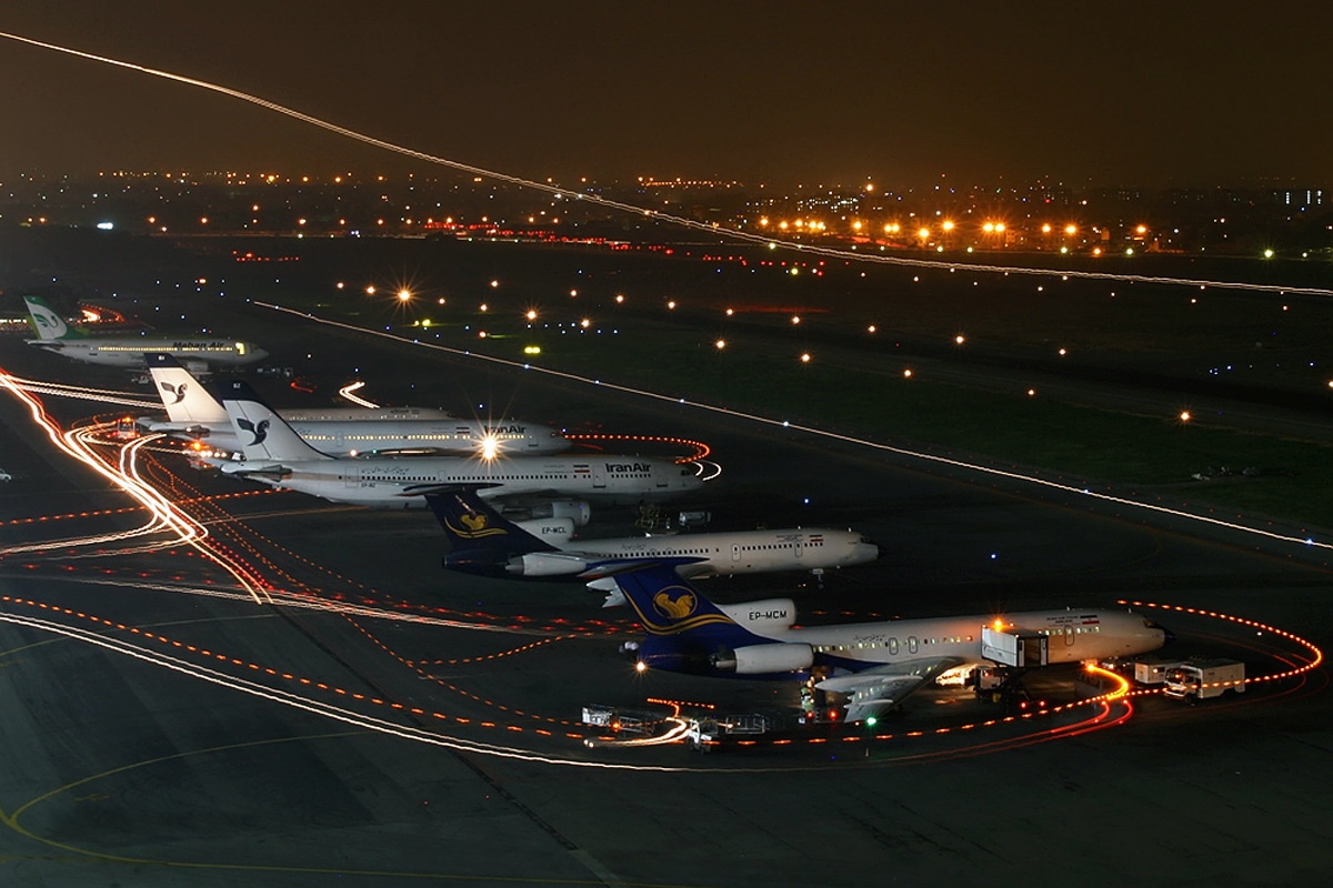 Parked Airliners in Mehrabad International Airport at night.